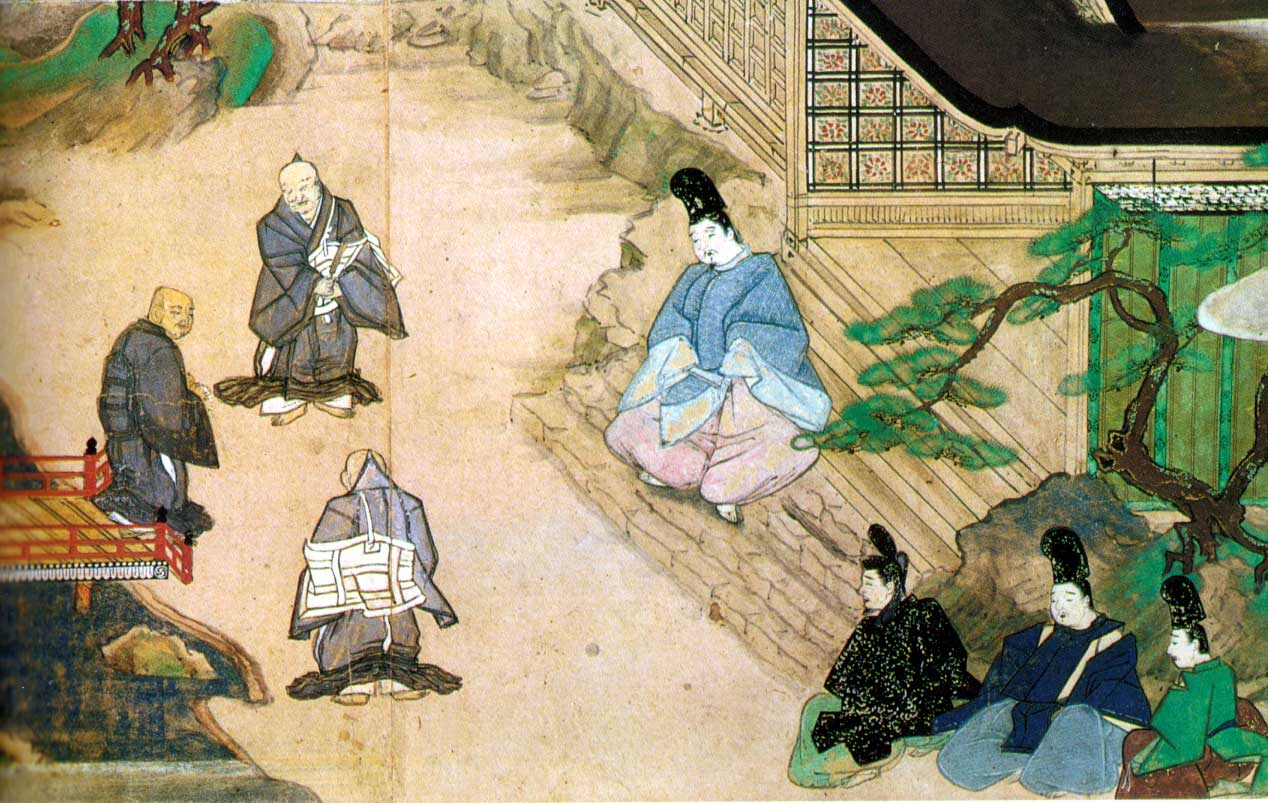 Honen shonin eden - Chion-in version - Honen meet Kujo Kanezane